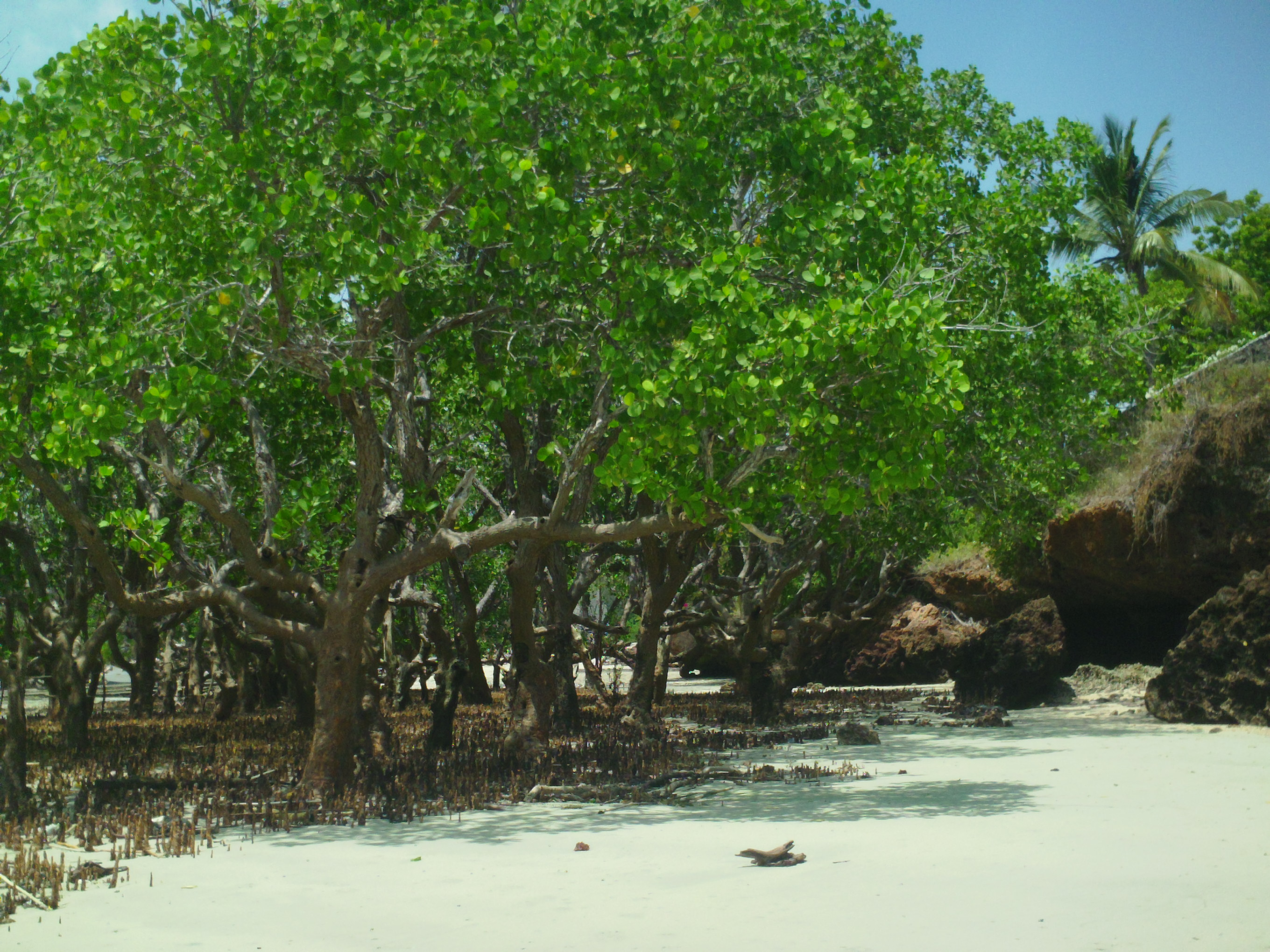 Mangrove trees that grow along the Kenyan coastline are vital to the health of Shimoni's coastal ecosystem.